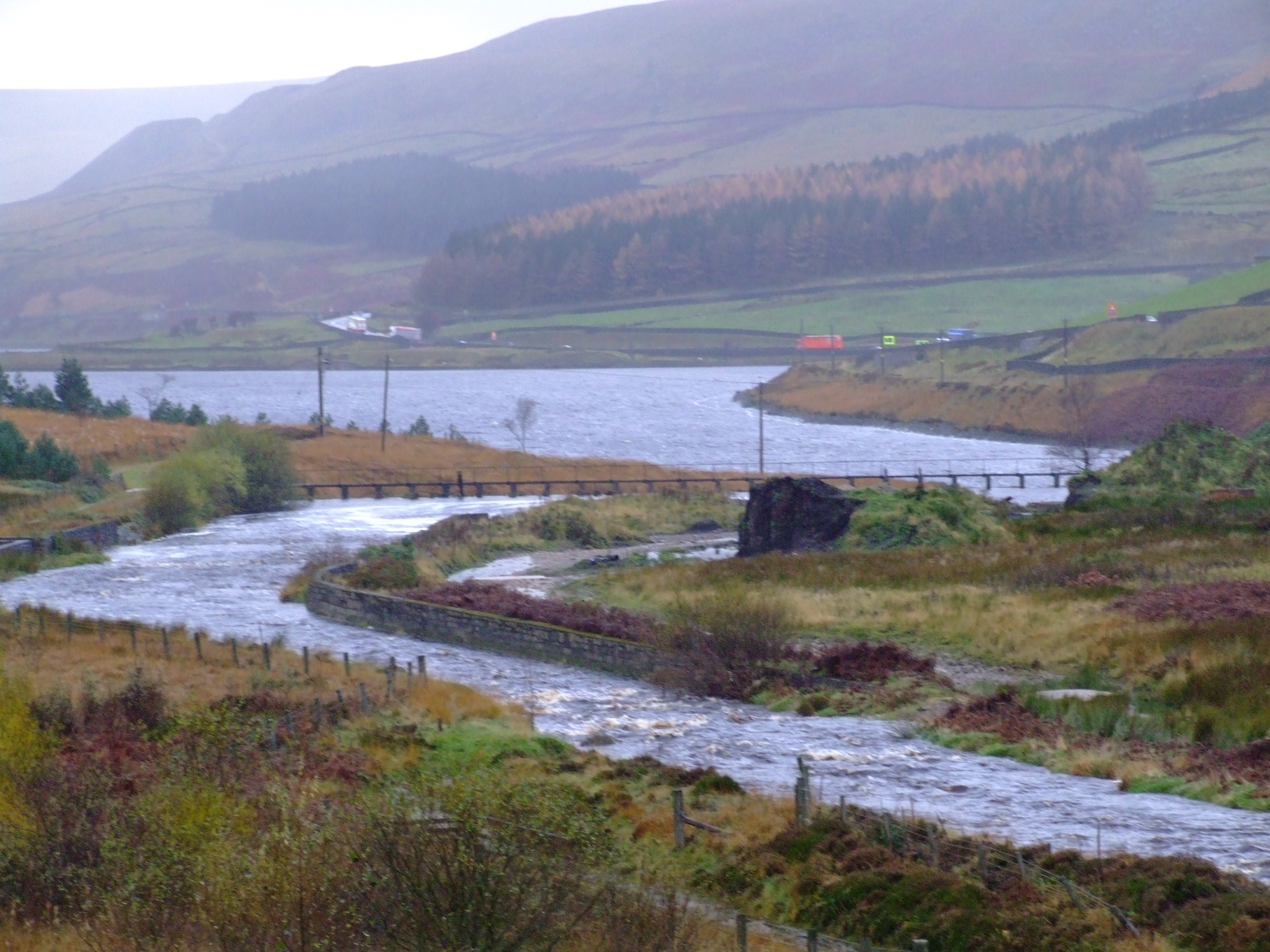 Longdendale in Derbyshire is the valley of the River Etherow. The Longdendale Chain is a series of reservoirs built to provide drinking water forManchester. The River Etherow in spate flows over the weir into Woodhead Reservoir. To the right lorries climb the A628 either side of Heyden Brook , behind is Ancote Hill and Bareholme Moss. Weather conditions: Rain.